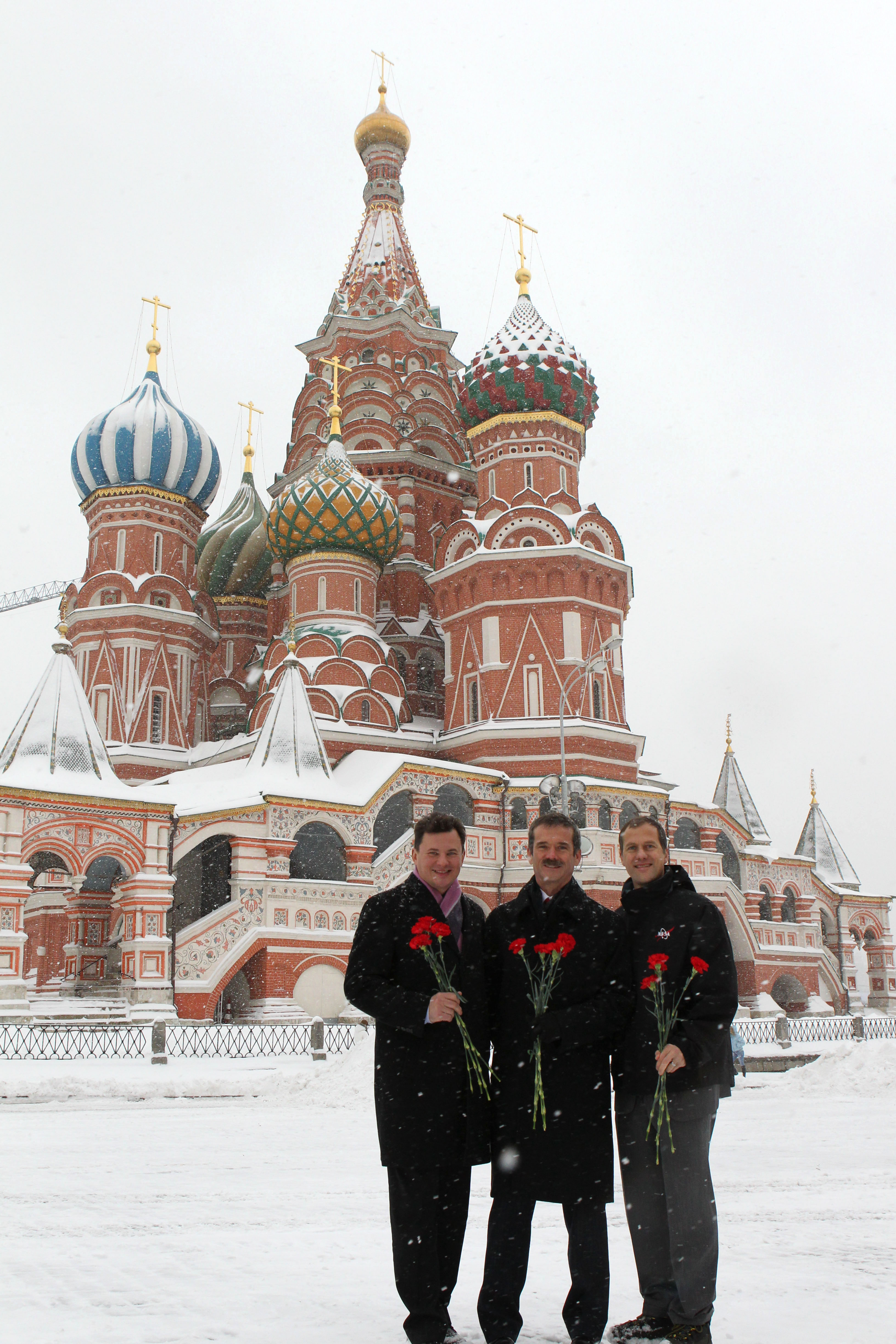 Expedition 34 Soyuz Commander Roman Romanenko (left), Flight Engineer Chris Hadfield of the Canadian Space Agency (center) and Flight Engineer Tom Marshburn of NASA pose for pictures in front of St. Basil's Cathedral in Moscow Nov. 29, 2012 during a tour of Red Square during which they laid flowers at the Kremlin Wall where Russian space heroes are interred. The trio is scheduled to launch to the International Space Station Dec. 19 from the Baikonur Cosmodrome in Kazakhstan in their Soyuz TMA-07M spacecraft.